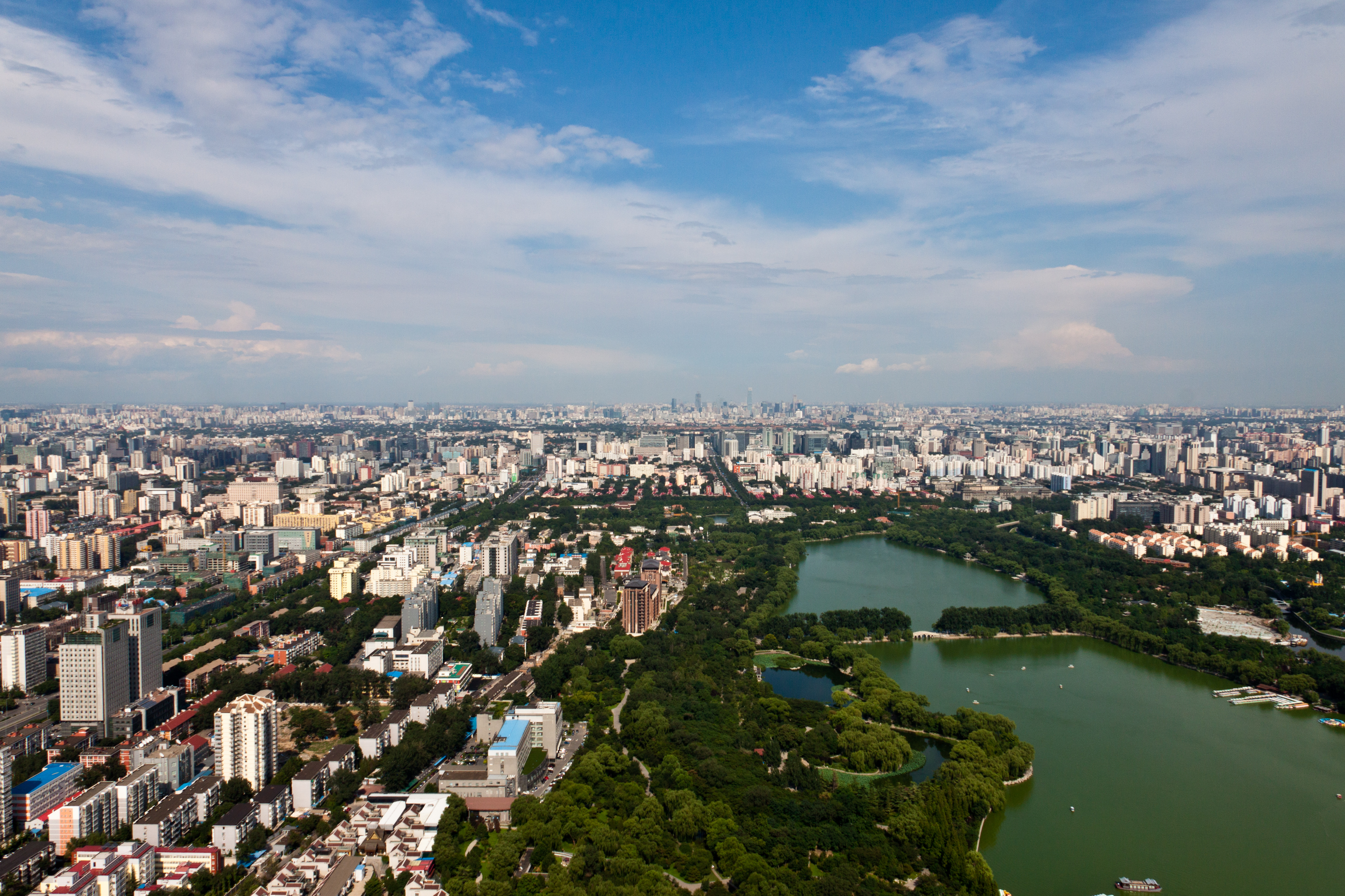 View of the Haidian District in Beijing.